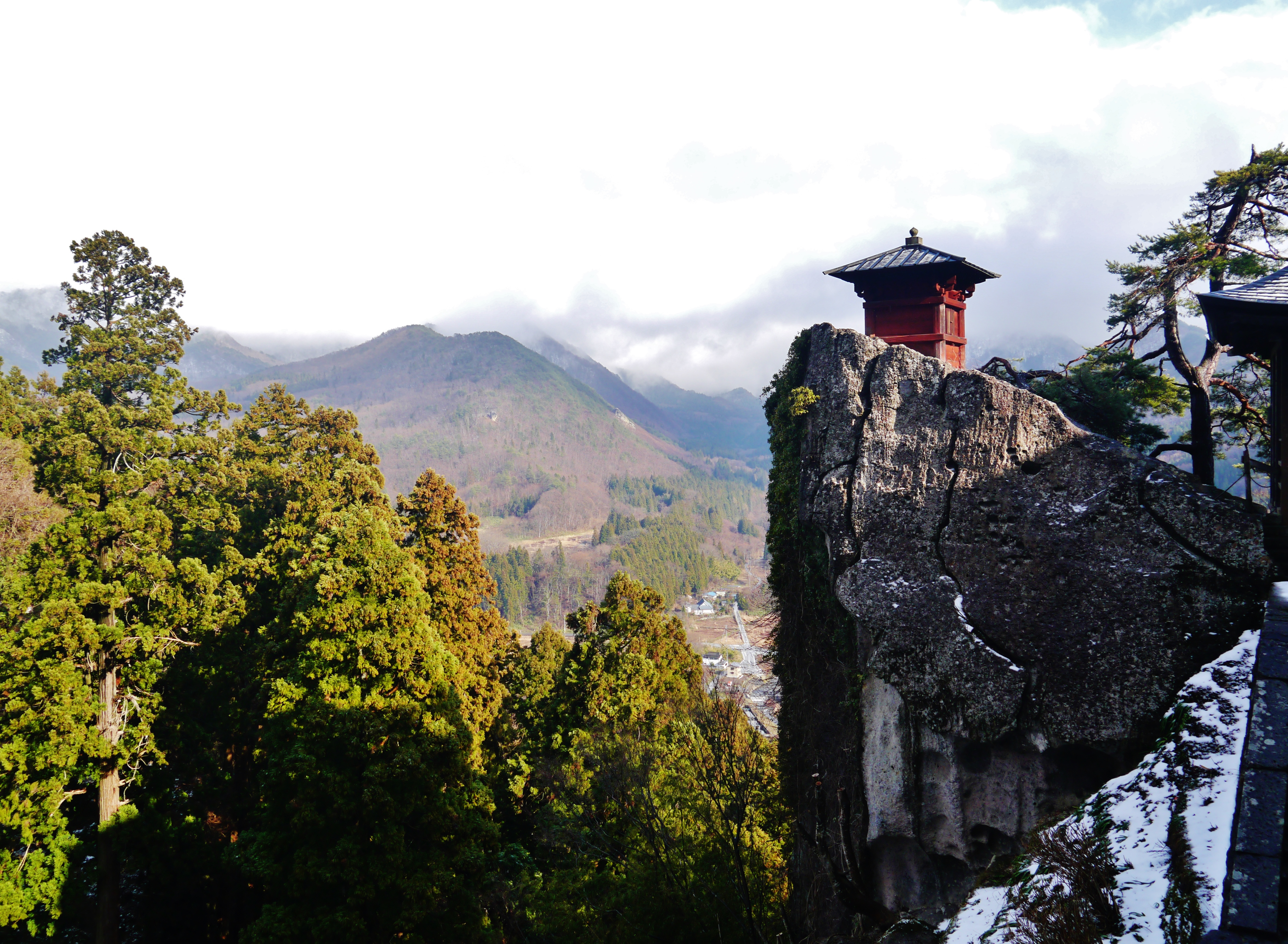 Nokyo Hall of the Risshaku Temple, Yamagata, Prefecture of Yamagata, Region of Tohoku, Japan